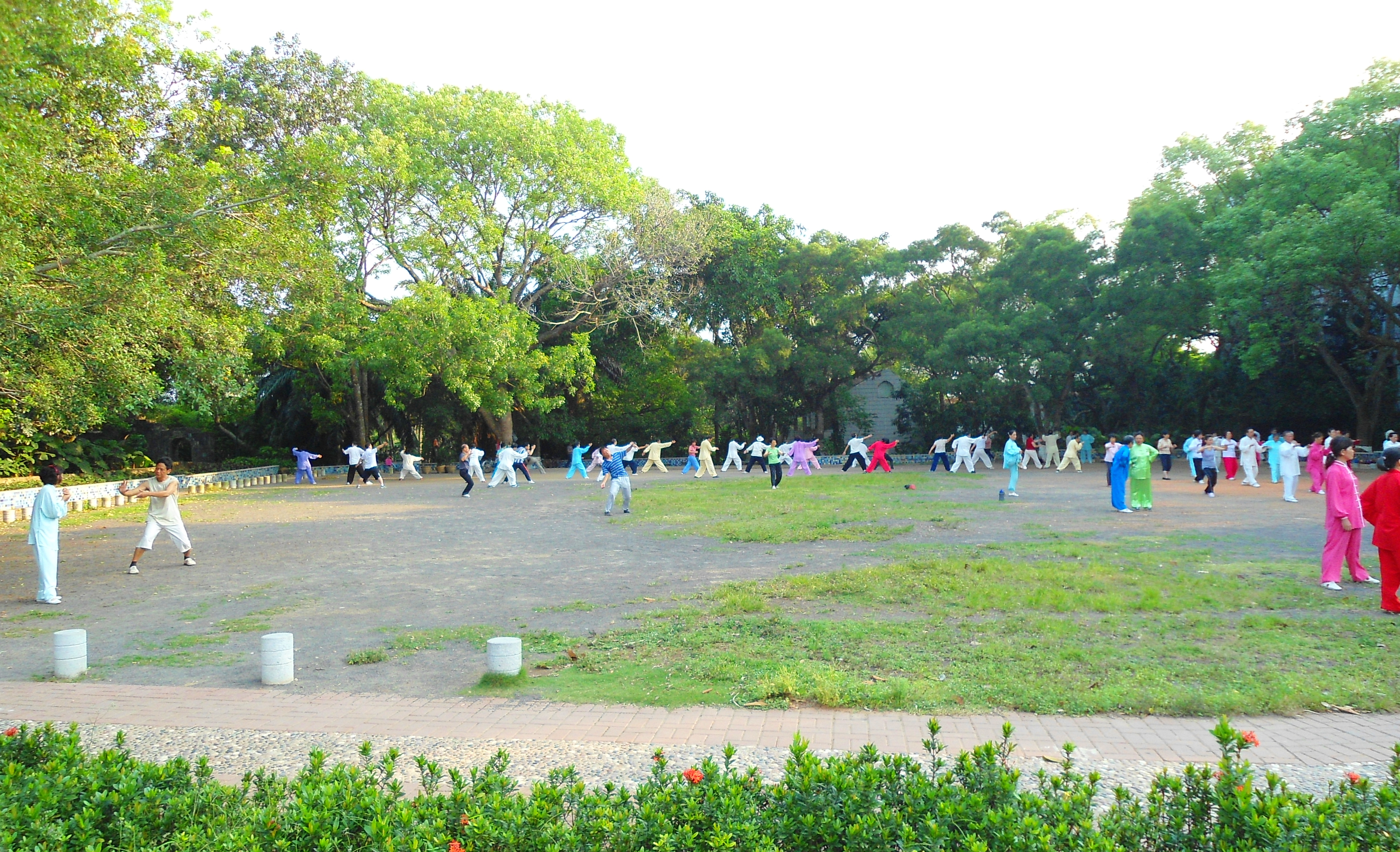 People practicing t'ai chi ch'uan (tai chi) in Haikou People's Park, Haikou City, Hainan Province, China